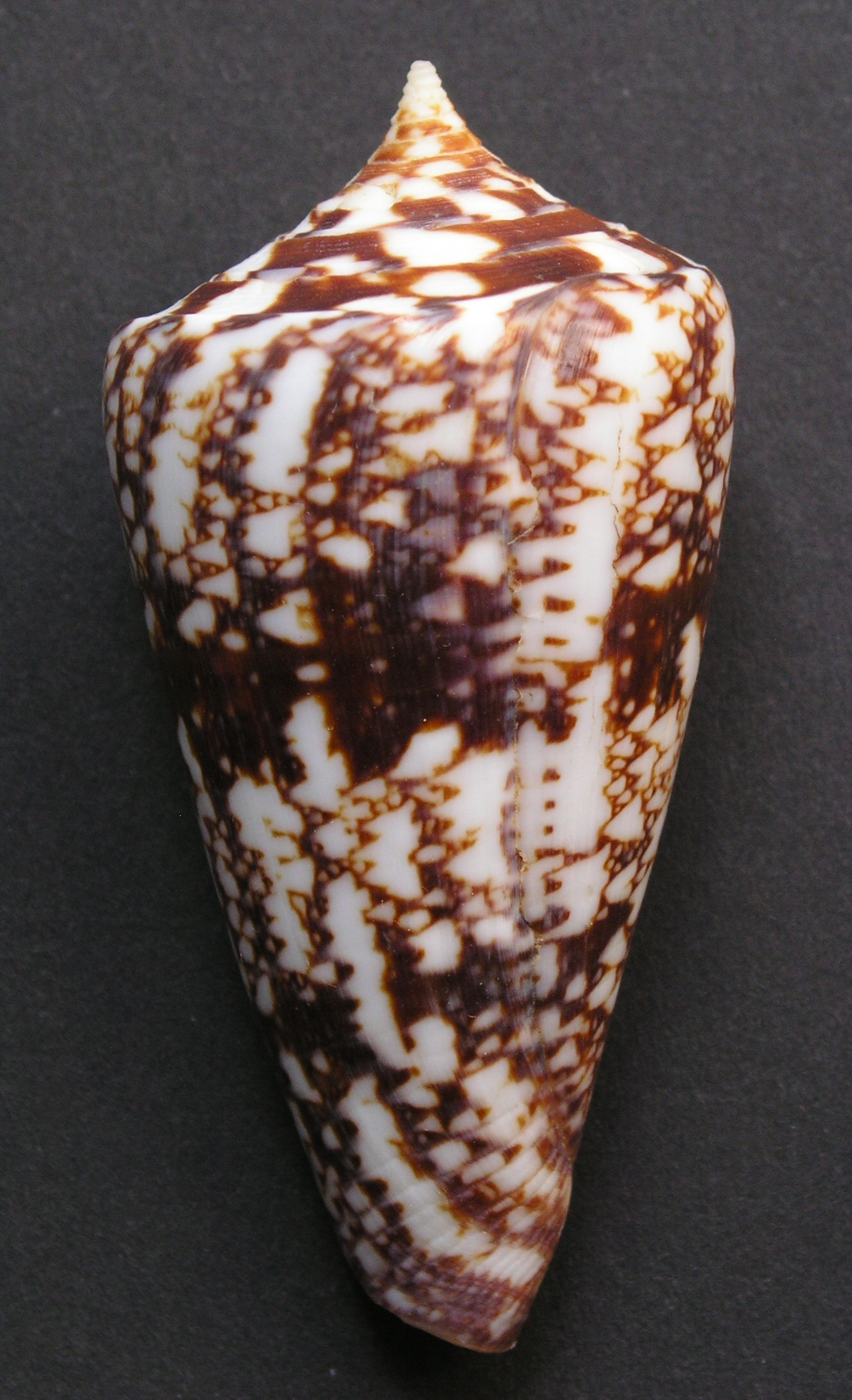 Conus amadis Licence: self-made photo, May 2005